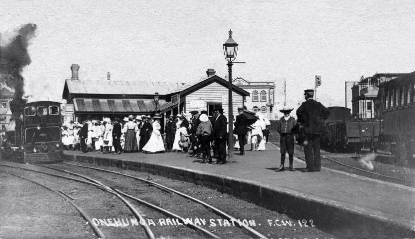 The train station at Onehunga, sometime in the second half of the 19th Century, likely close after opening of the line in 1873. The station was located slightly to the north and east of the new 2010 station.